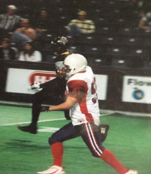 whichita falls diablos vs beaumont drillers